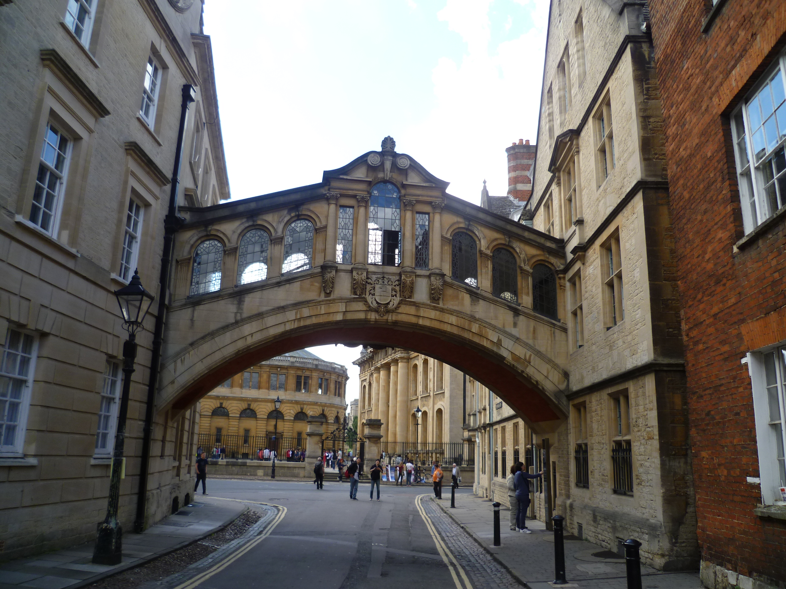 Bridge over New College Lane